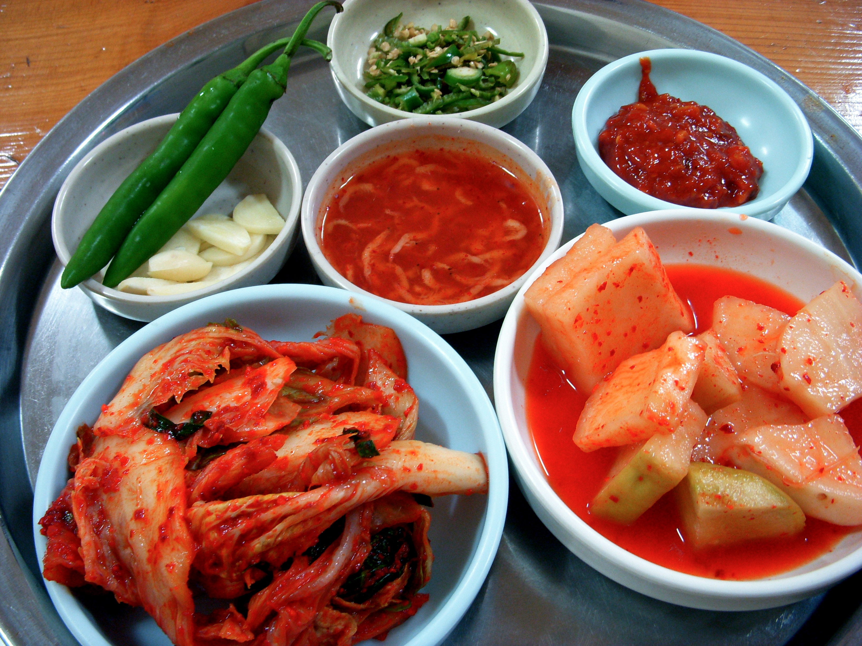 kimchi, ggakkdugi (cubed radish kimchi) and two jeotgal (fermented seasoned seafood) in Korean cuisine